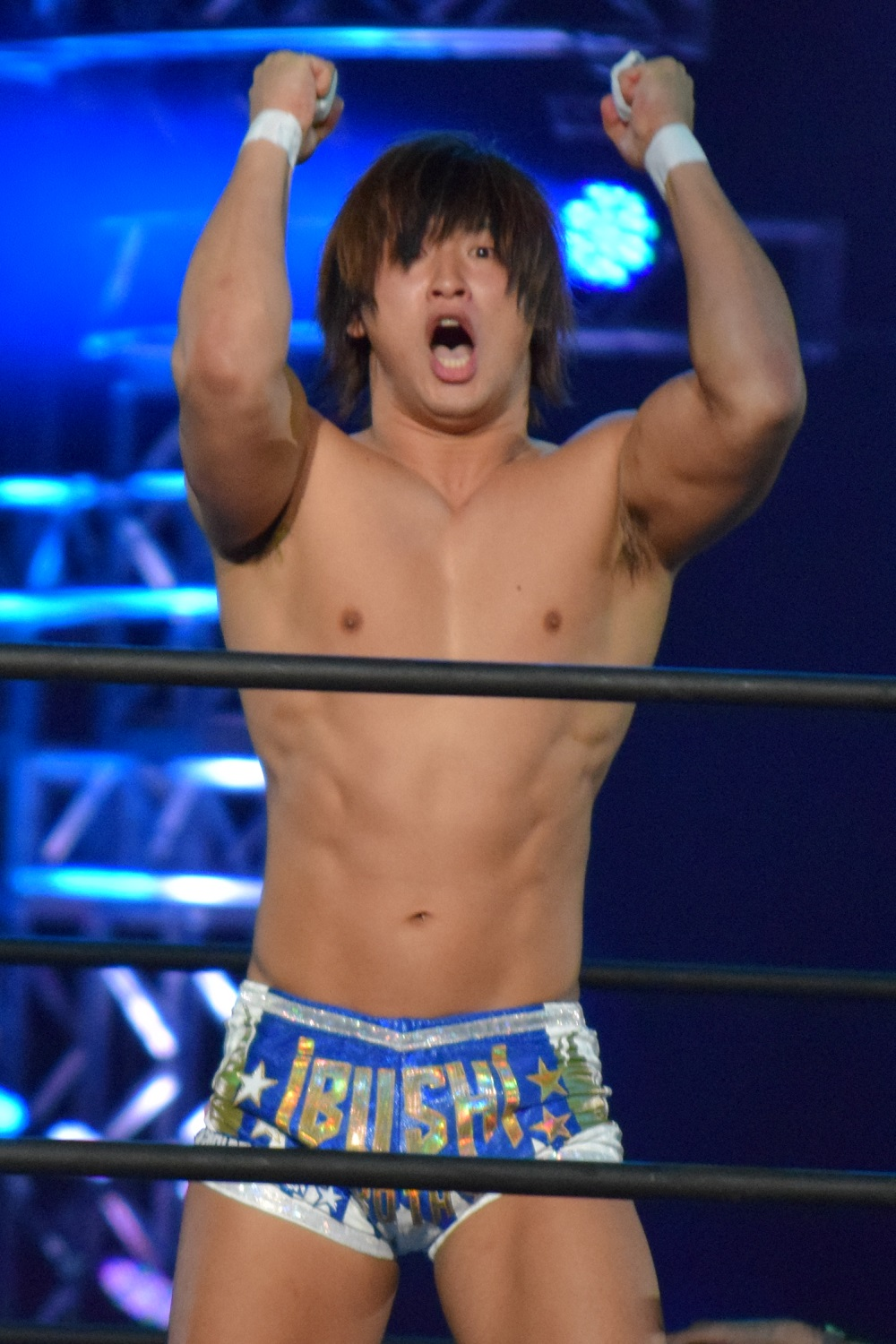 Kota Ibushi in august 2015 during G1 CLIMAX 25 tournament.